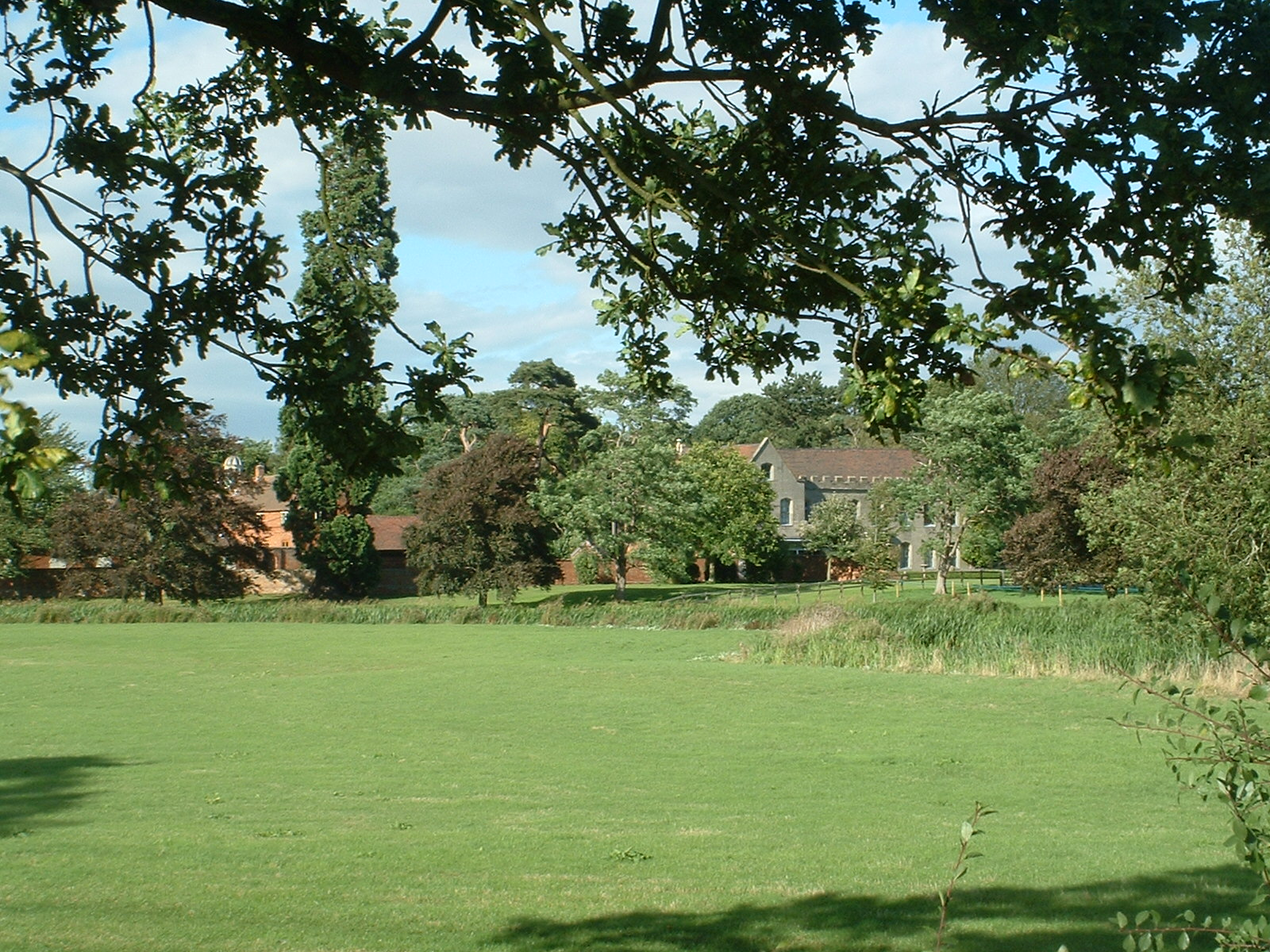 Offchurch Bury, Warwickshire. Taken by Necrothesp, 28 August 2005.